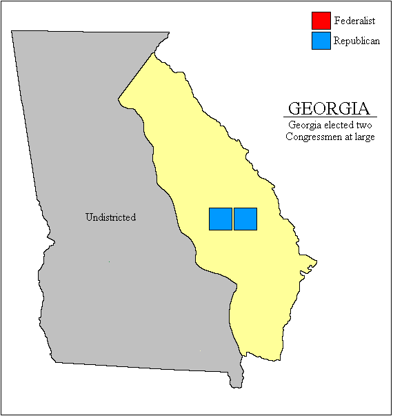 Congressional district map of Georgia for the 5th Congress, 1796